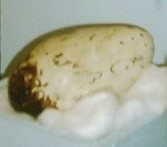 Pinguinus impennis Cropped from Image:Auk-egg.jpg, a picture by User:Messybeast (Sarah Hartwell) of a Great Auk egg at Ipswich Museum. It is cropped from Image:Great Auk egg at Ipswich Museum.jpg